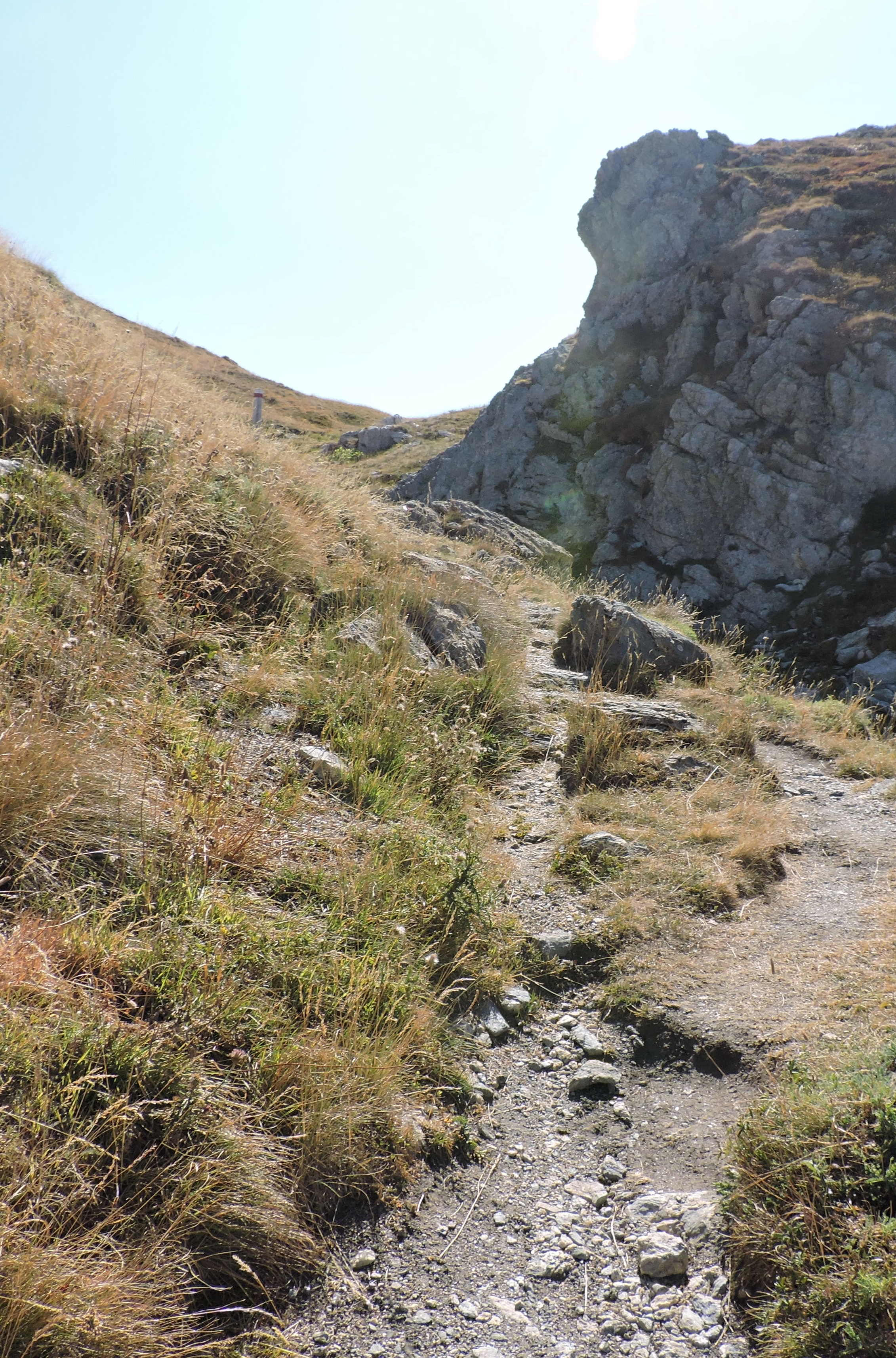 Porta Sestrera (Mountain pass of the Ligurian Alps): foothpath from Pesio Valley